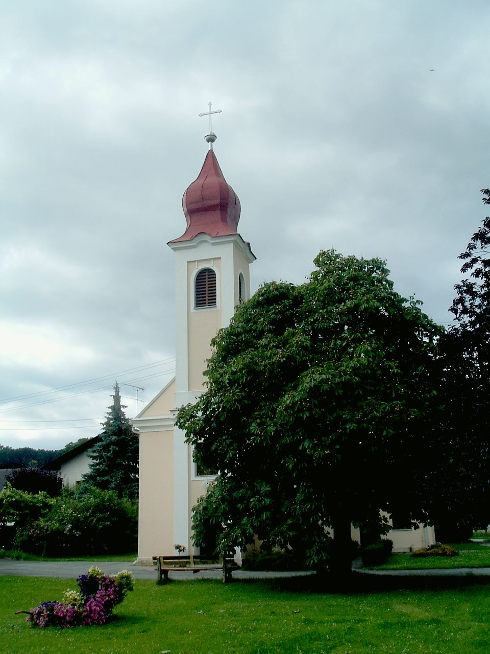 Deutsch Ehrensdof (Némethásos), church